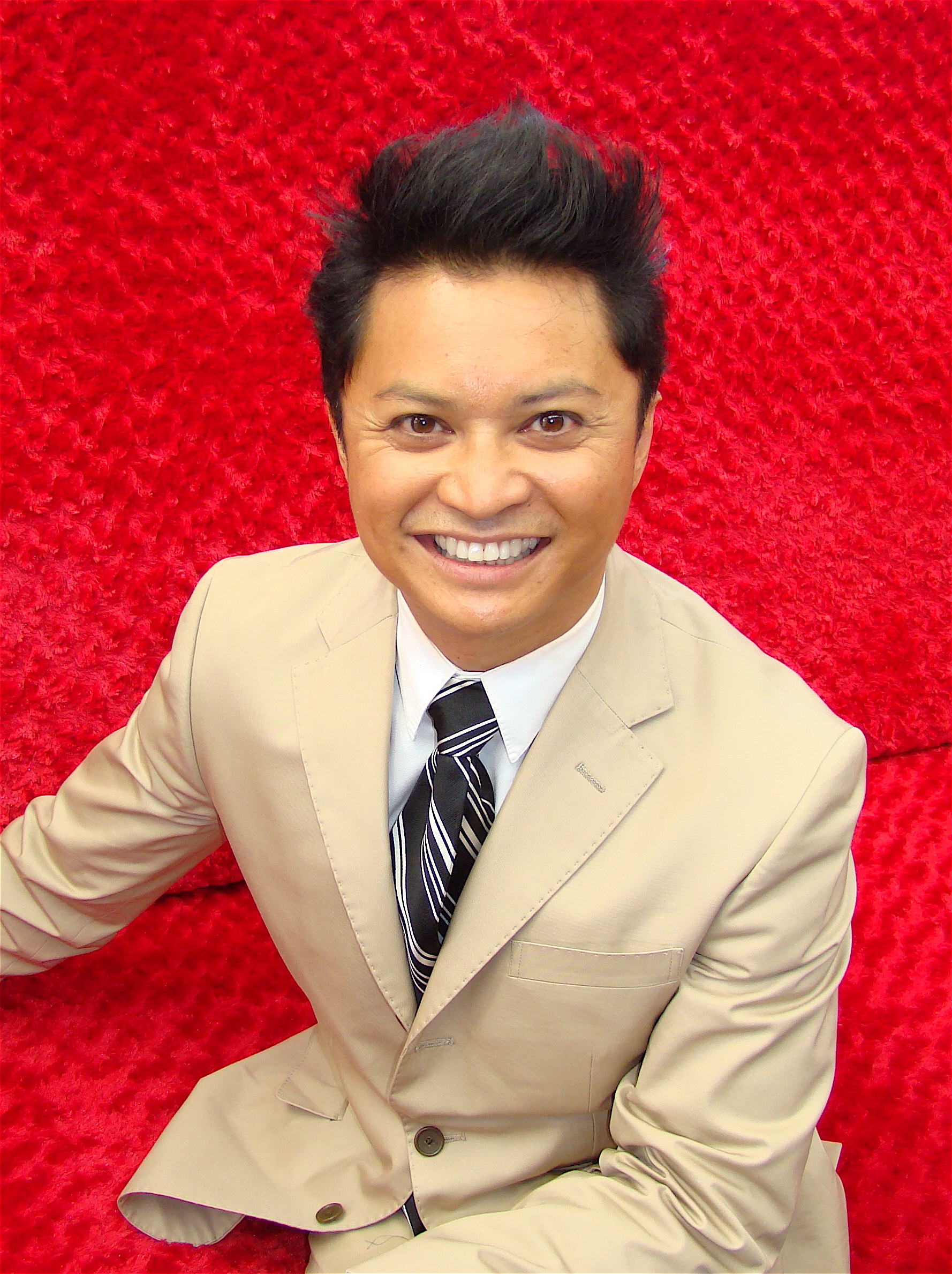 American actor Alec Mapa.